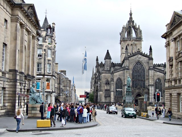 Royal Mile, Edinburgh A view of the Royal Mile including the High Kirk of Edinburgh, otherwise known as St Giles' Cathedral.